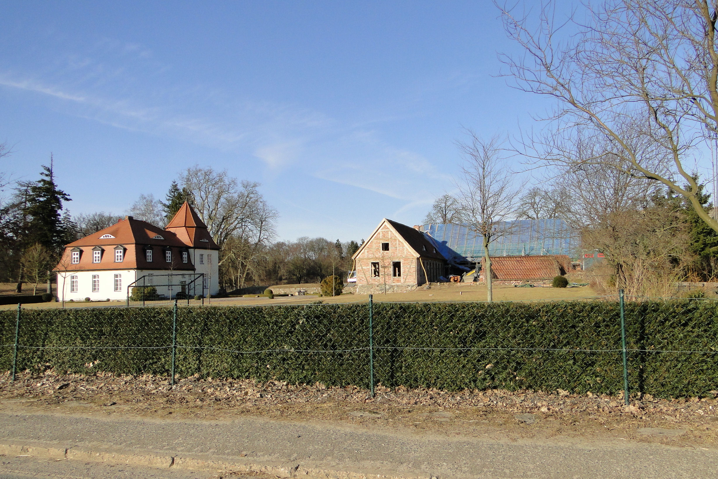 Manor in Krumbeck, district Mecklenburgische Seenplatte, Mecklenburg-Vorpommern, Germany